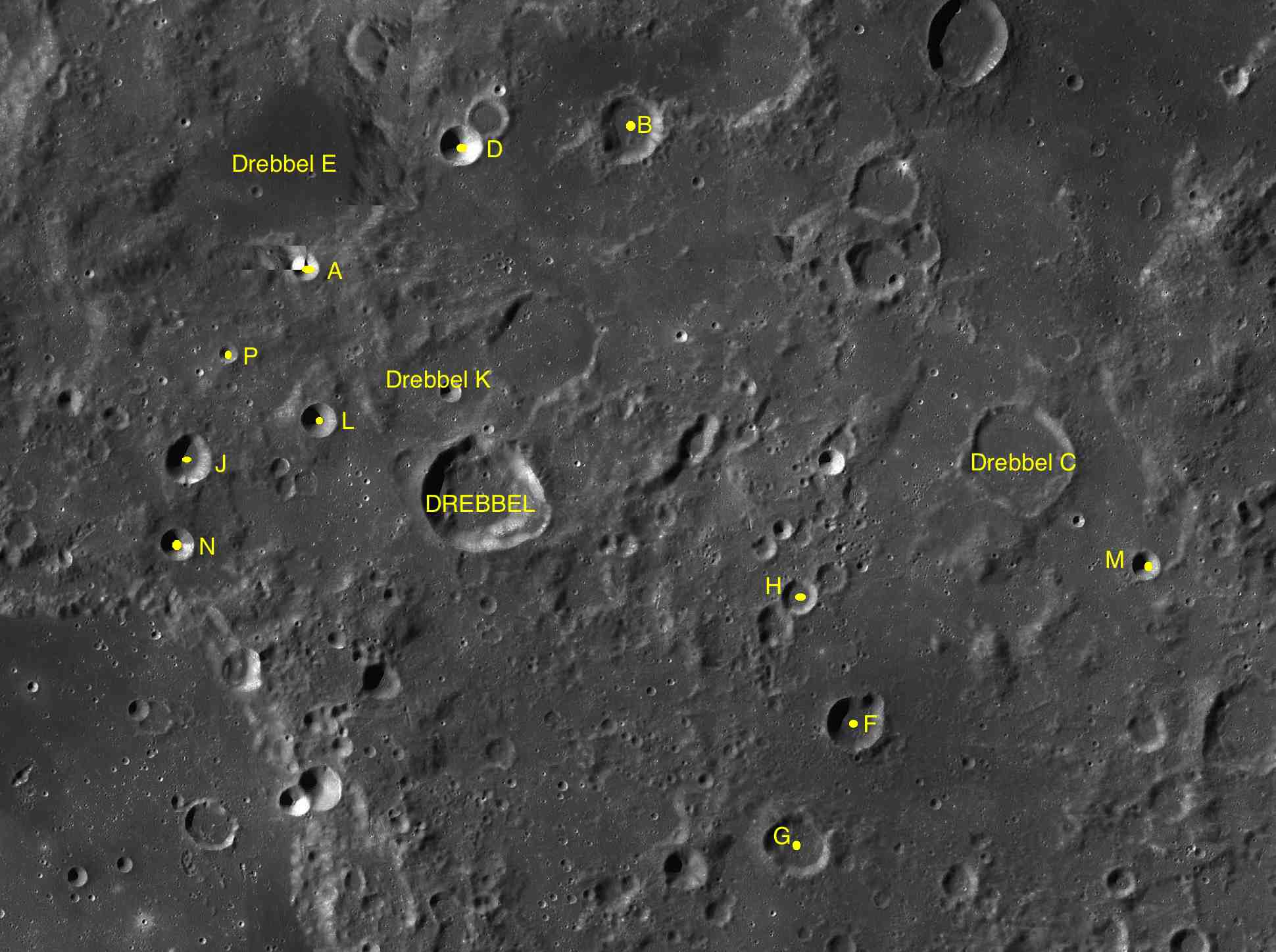 Part of the chart LAC-110 used for the presentation